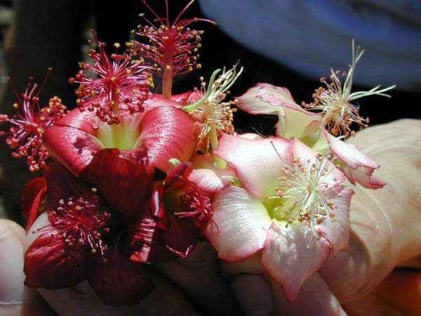 Abutilon menziesii2.jpg (flowers) Credit: U. S. Geological Survey USGS/Ft. Collins, CO (if originating office but not the artist is known) Downloaded from : [1]